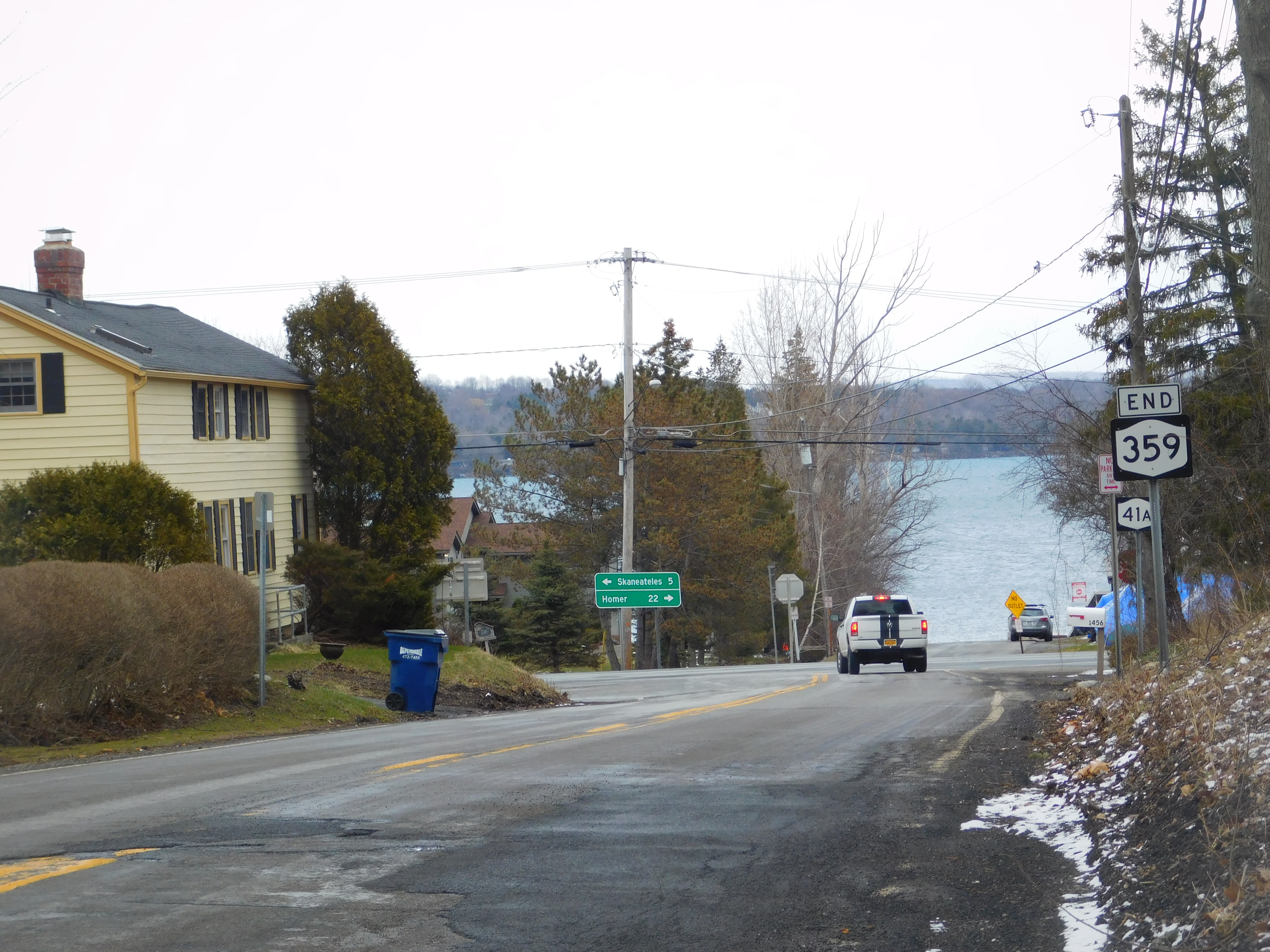 NY 359 in Skaneateles town, New York.